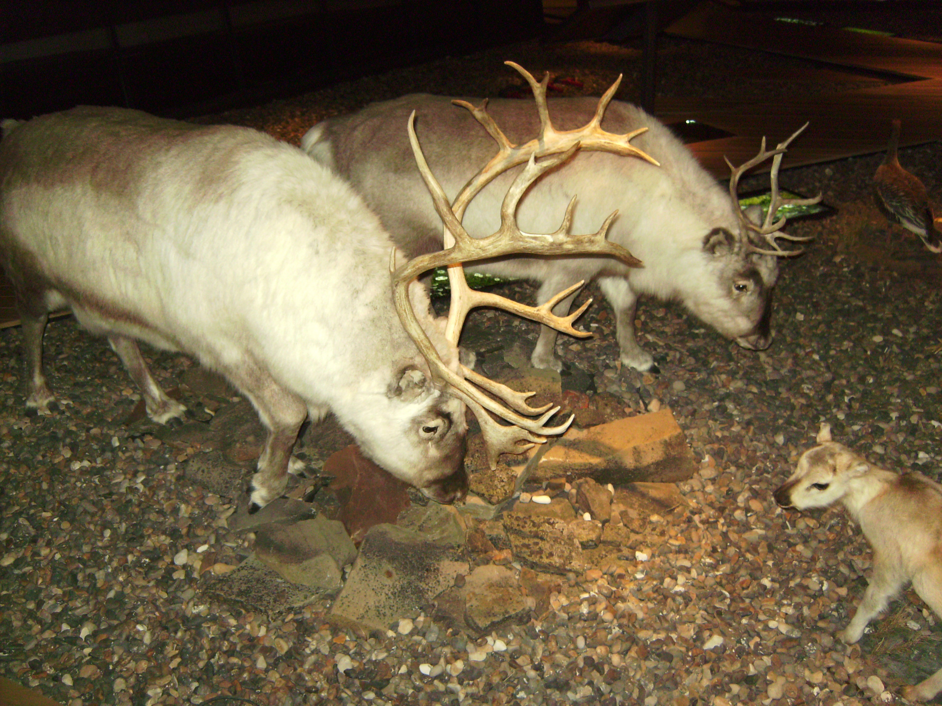 Dissected reindeers at Longyearbyen Museum, Svalbard